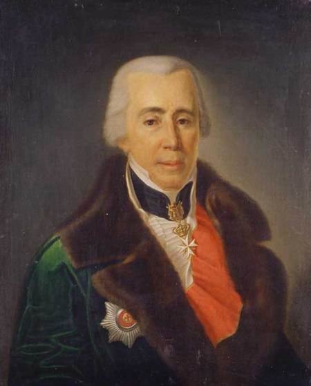 Portrait of Prince Fiodor Golitsyn (1751-1827)